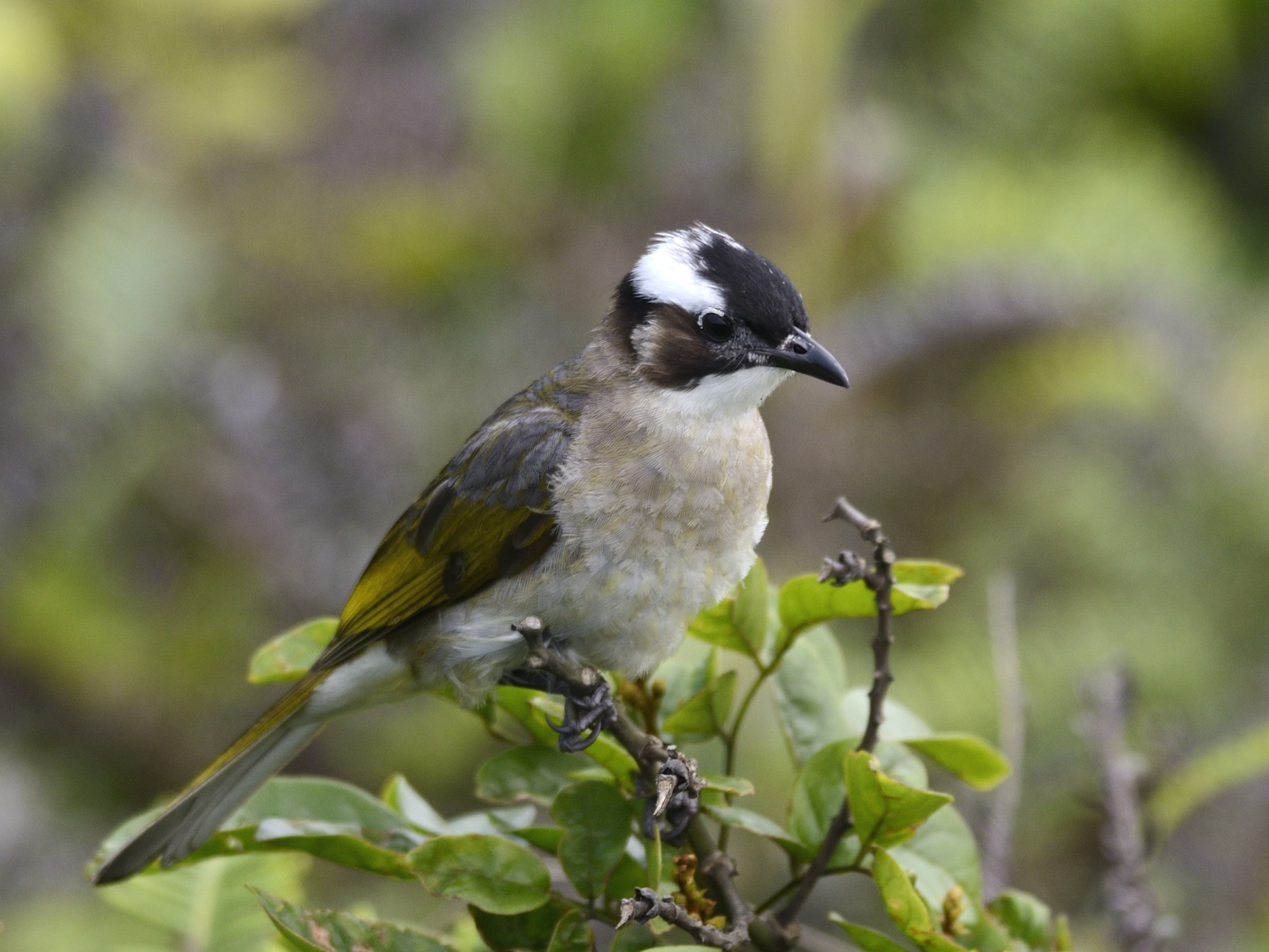 Light-vented Bulbul (Pycnonotus sinensis)